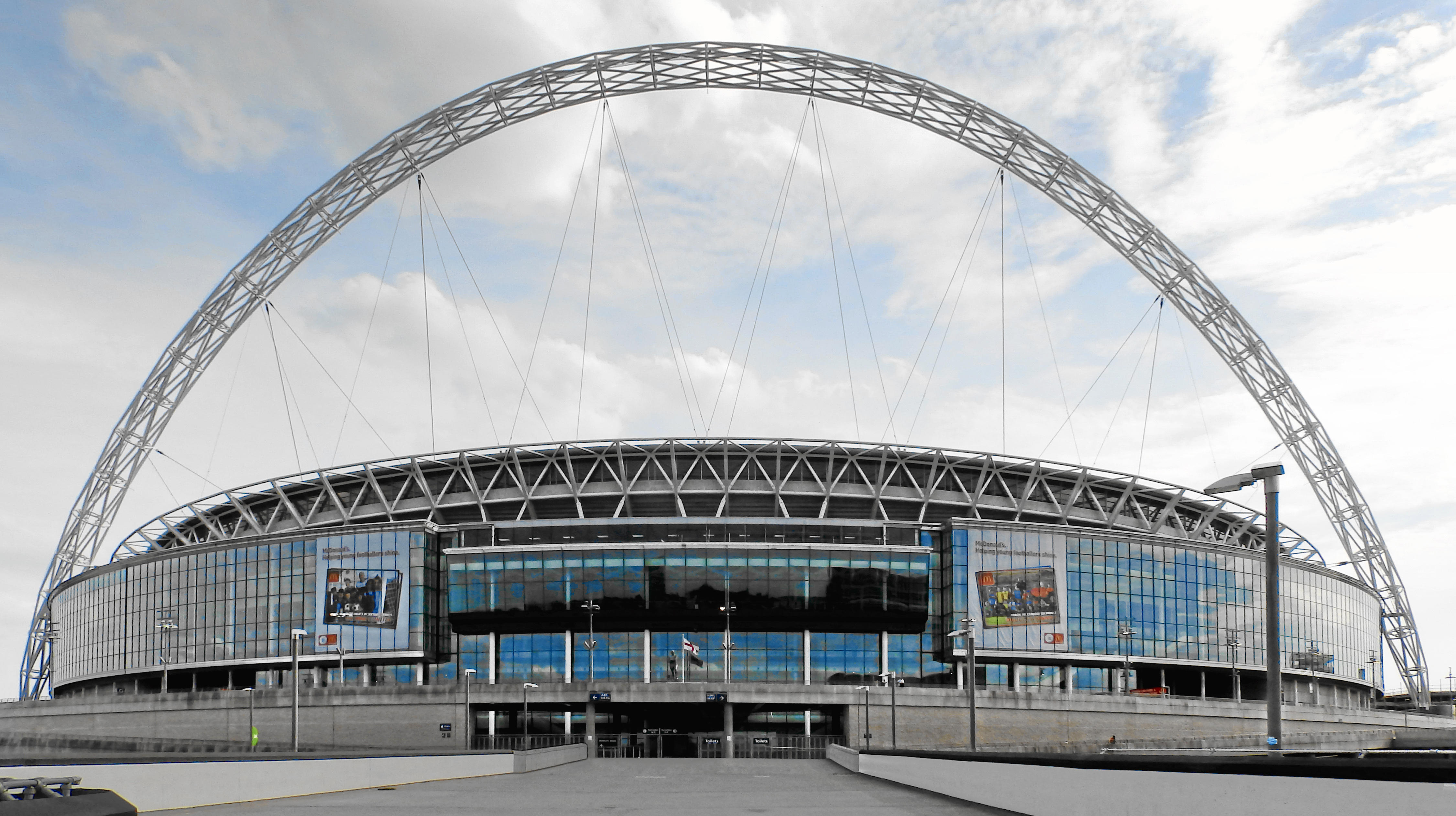 Wembley Stadium, Aspect Ratio 16:10.